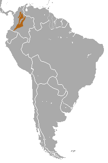 Colombian Woolly Monkey (Lagothrix lugens) range